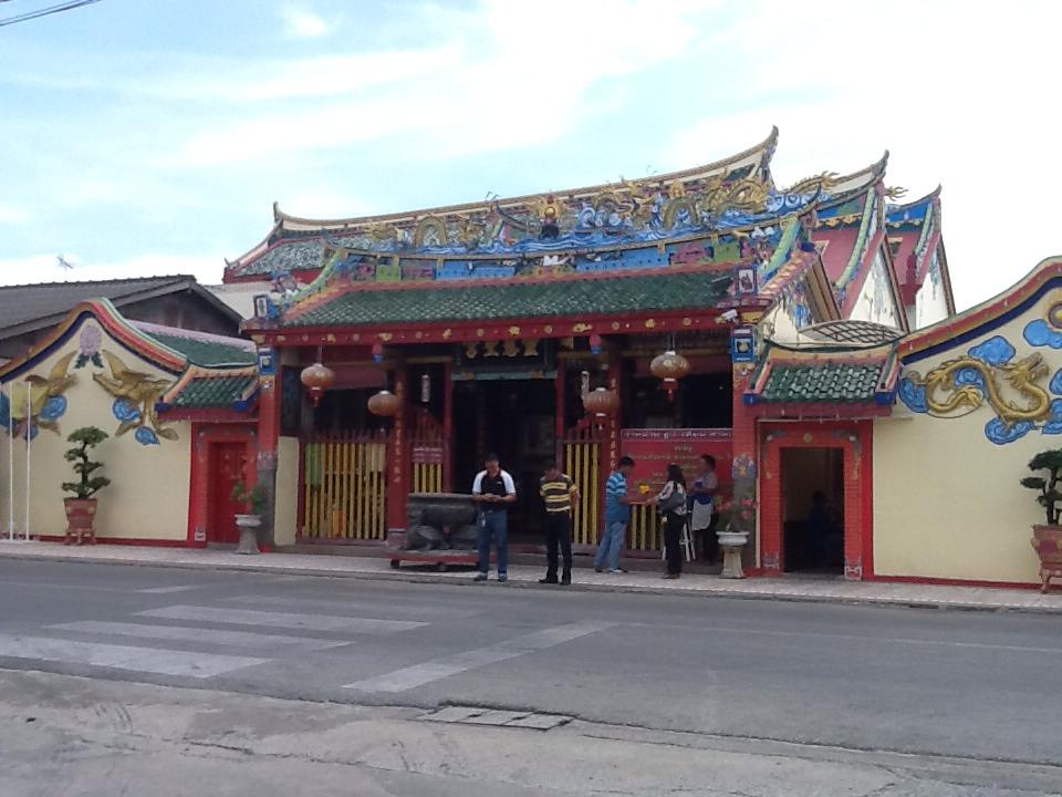 Leng Chu Kiang Shrine, Mueang Pattani, Pattani, Thailand.